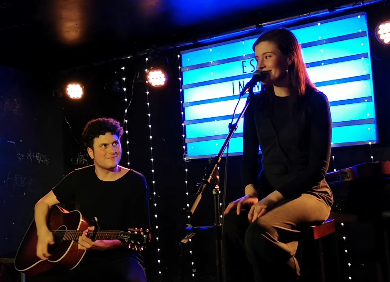 Joschka Bender und Madeline Juno during Junos Acoustic Tour 2019 at The Tube, Düsseldorf.